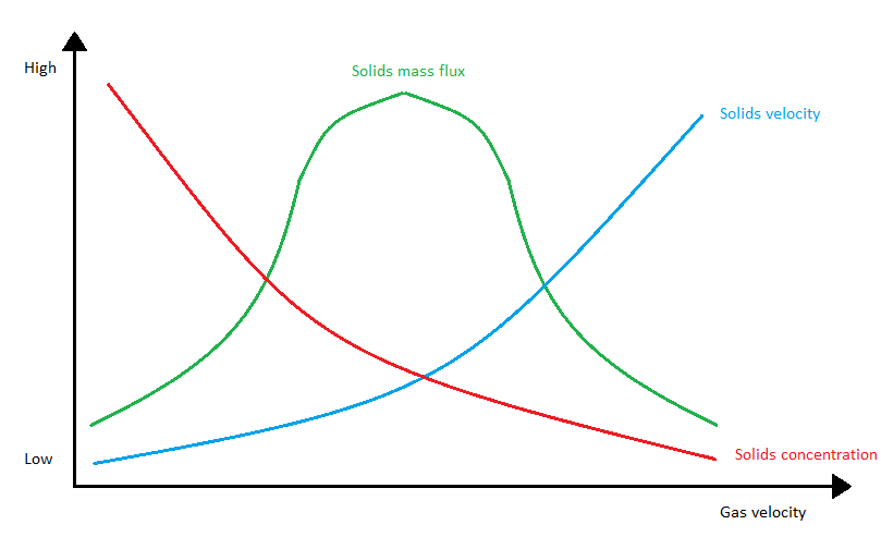 blablh